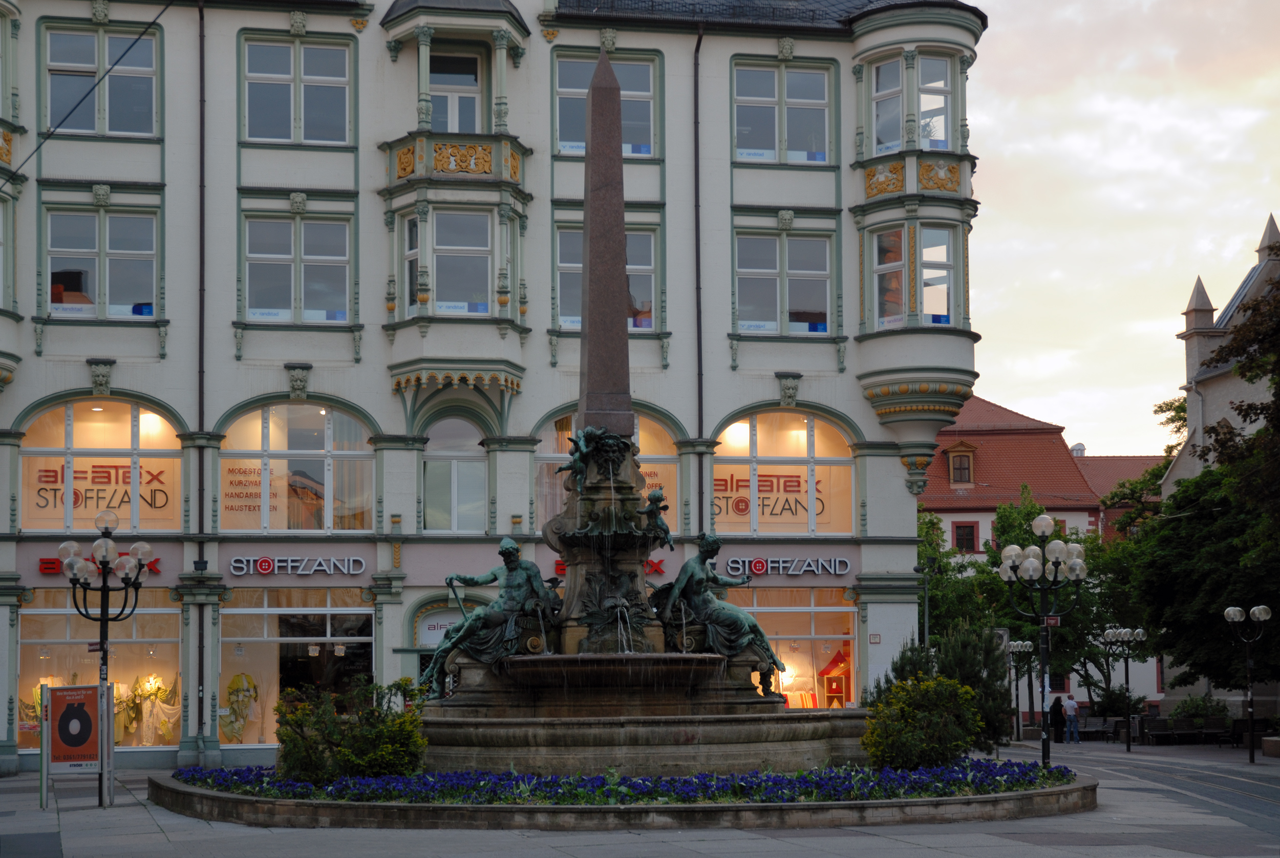 This image shows the Anger fountain ("Angerbrunnen") in Erfurt, Germany.